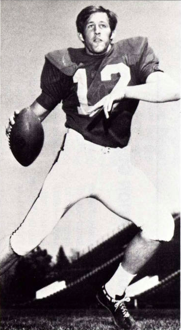 Iowa State Quarterback George Amundson